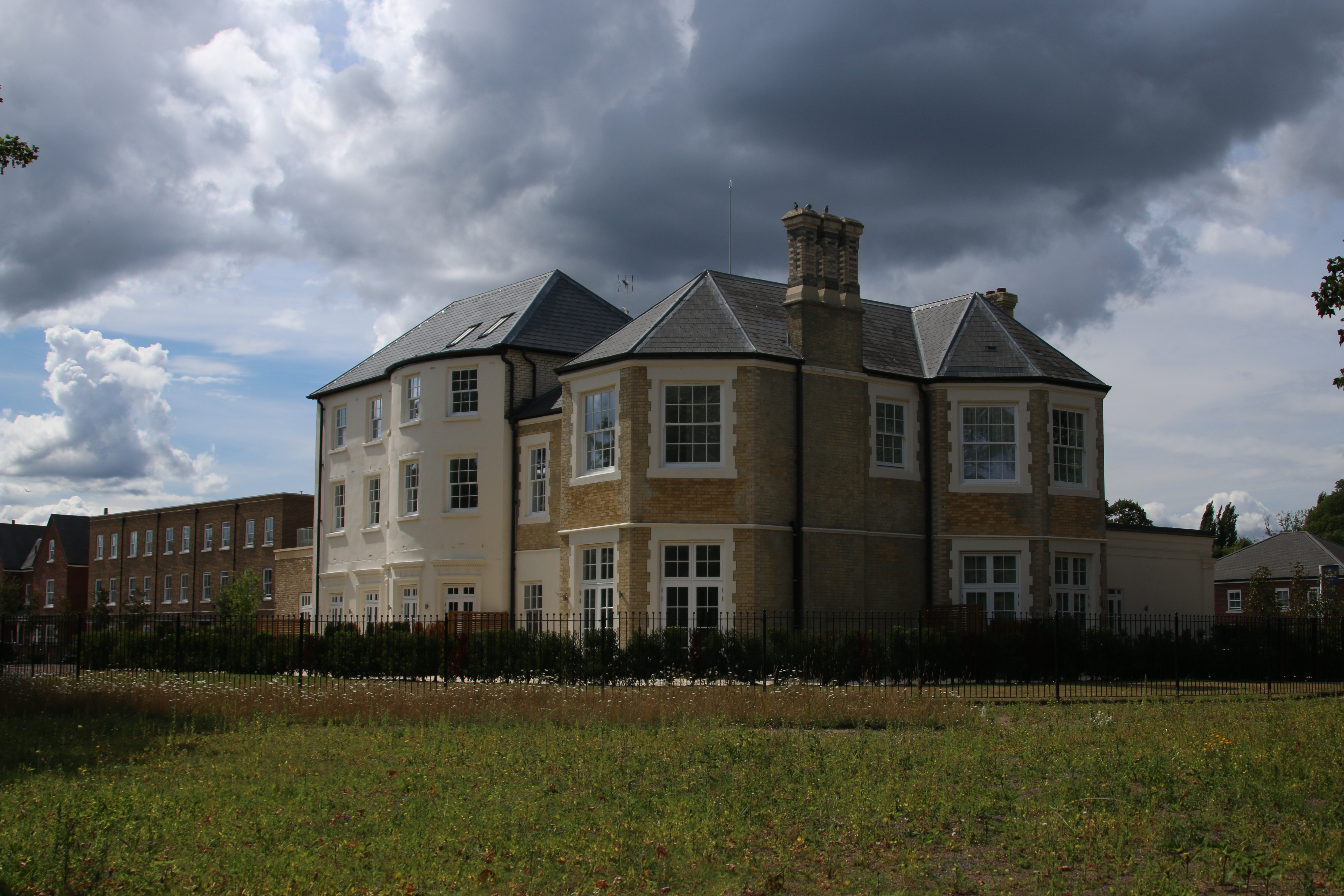 The remaining core of Latchmere House in 2020, with the new buildings of the Richmond Chase development around it